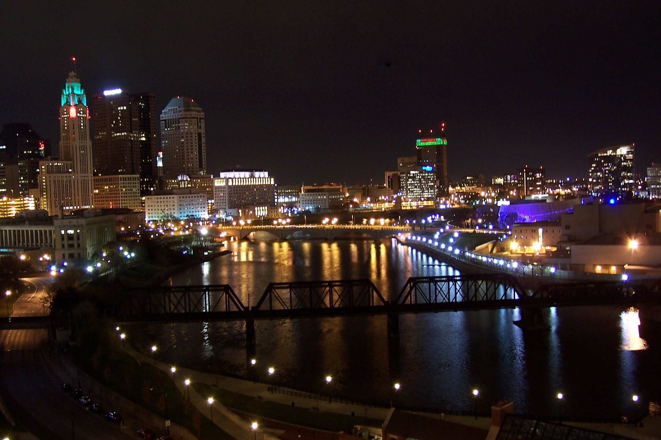 The skyline of Columbus, OH is lit up on a December night.